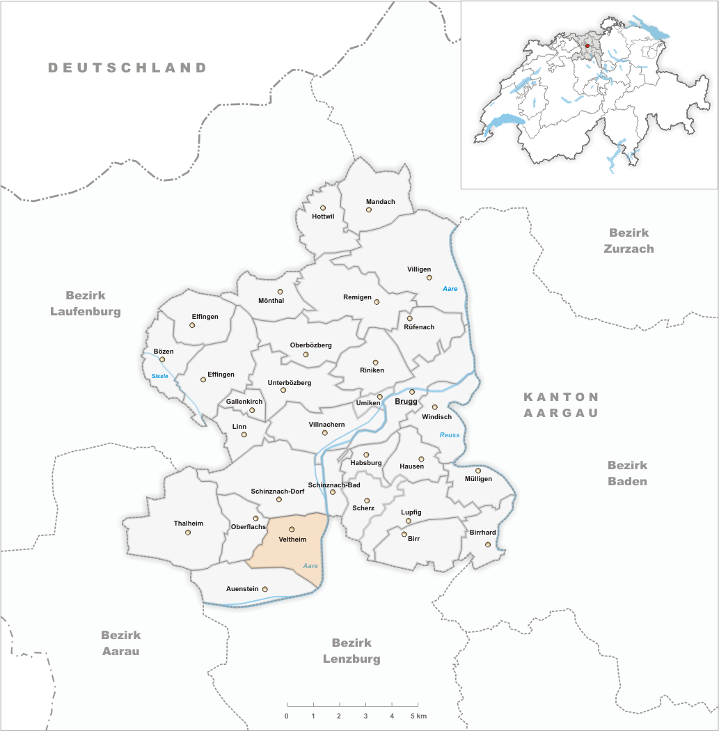 Municipality Veltheim